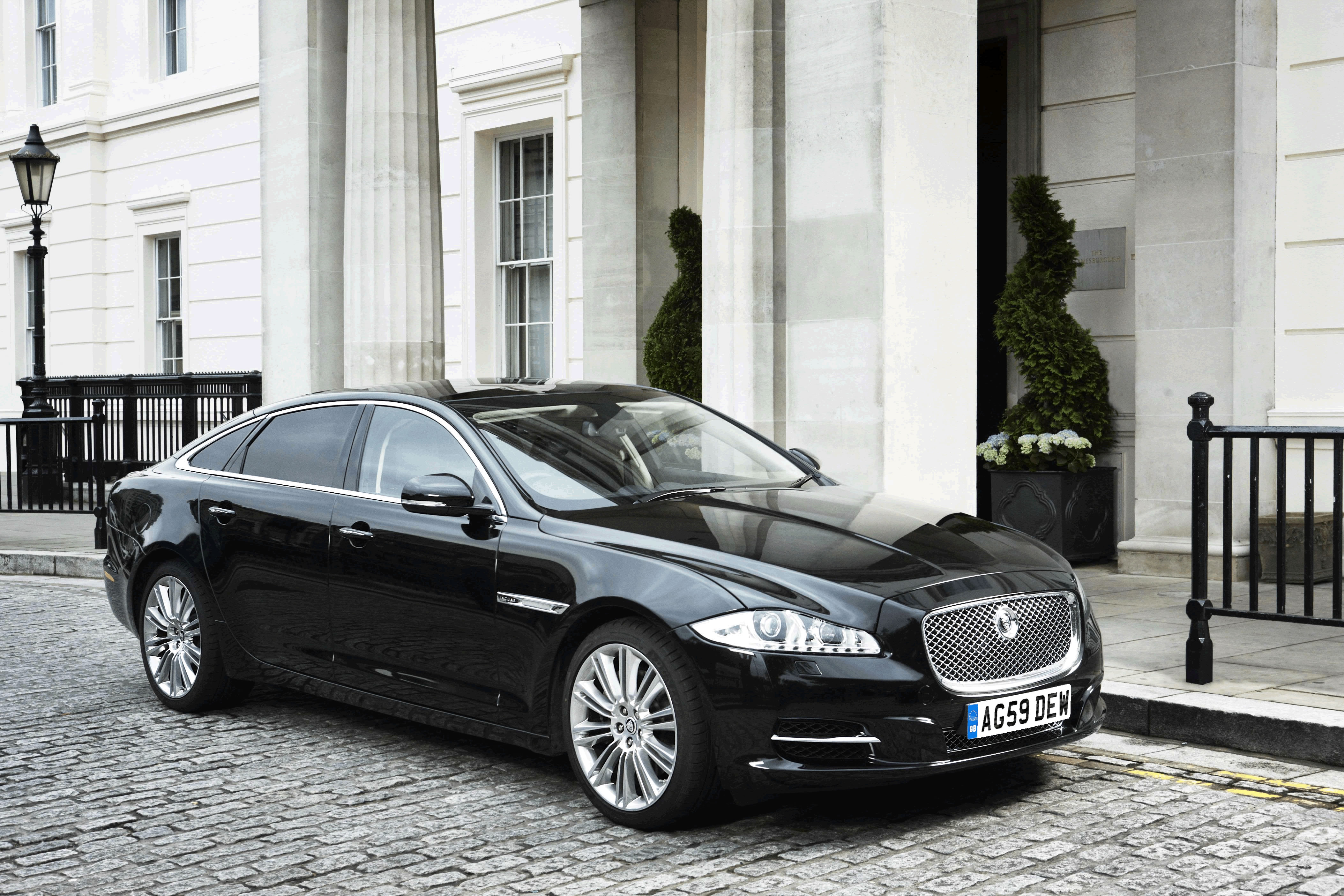 The UK Prime Minister's Jaguar outside the Lanesborough Hotel, London.